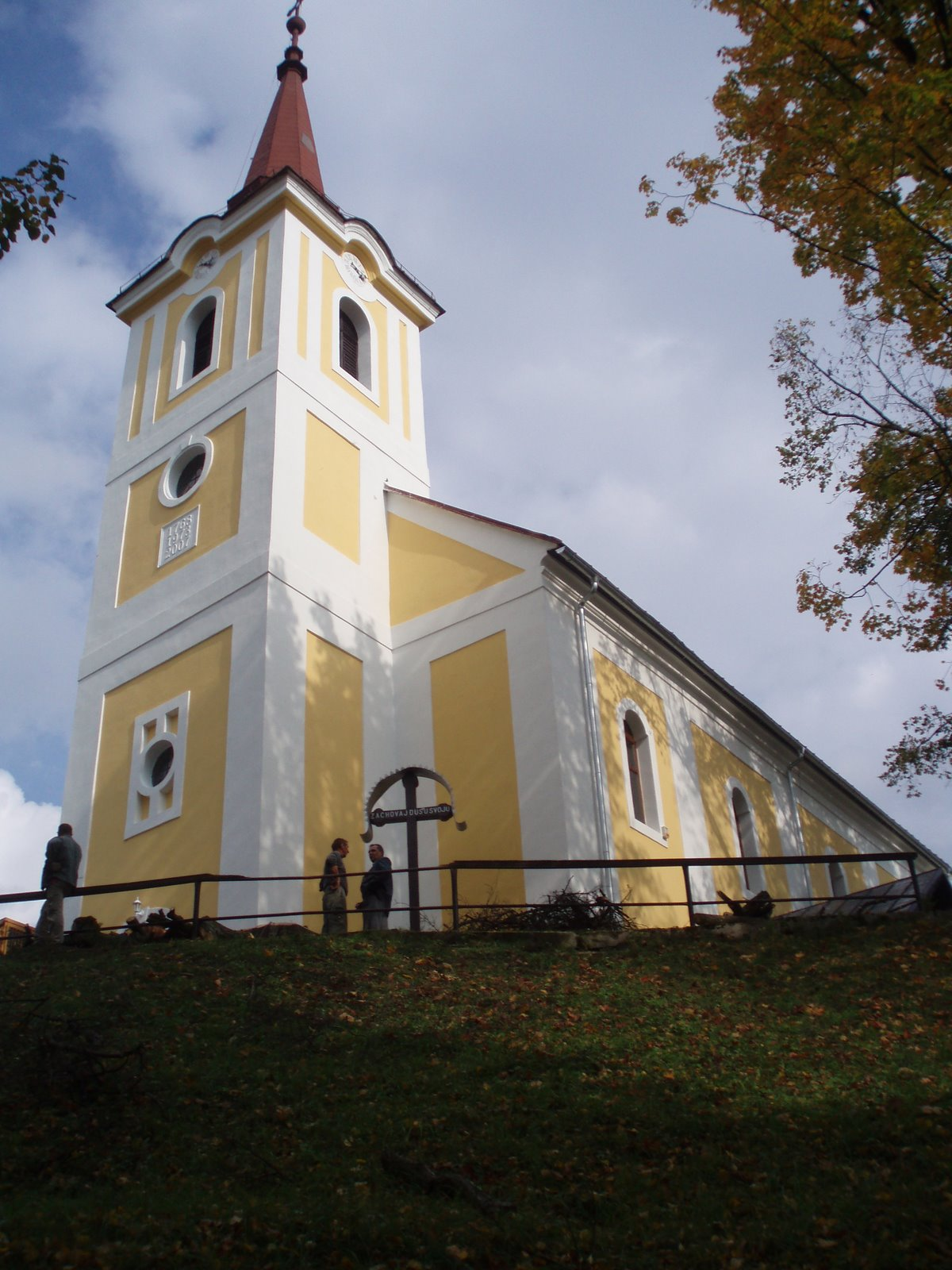 pohorela church